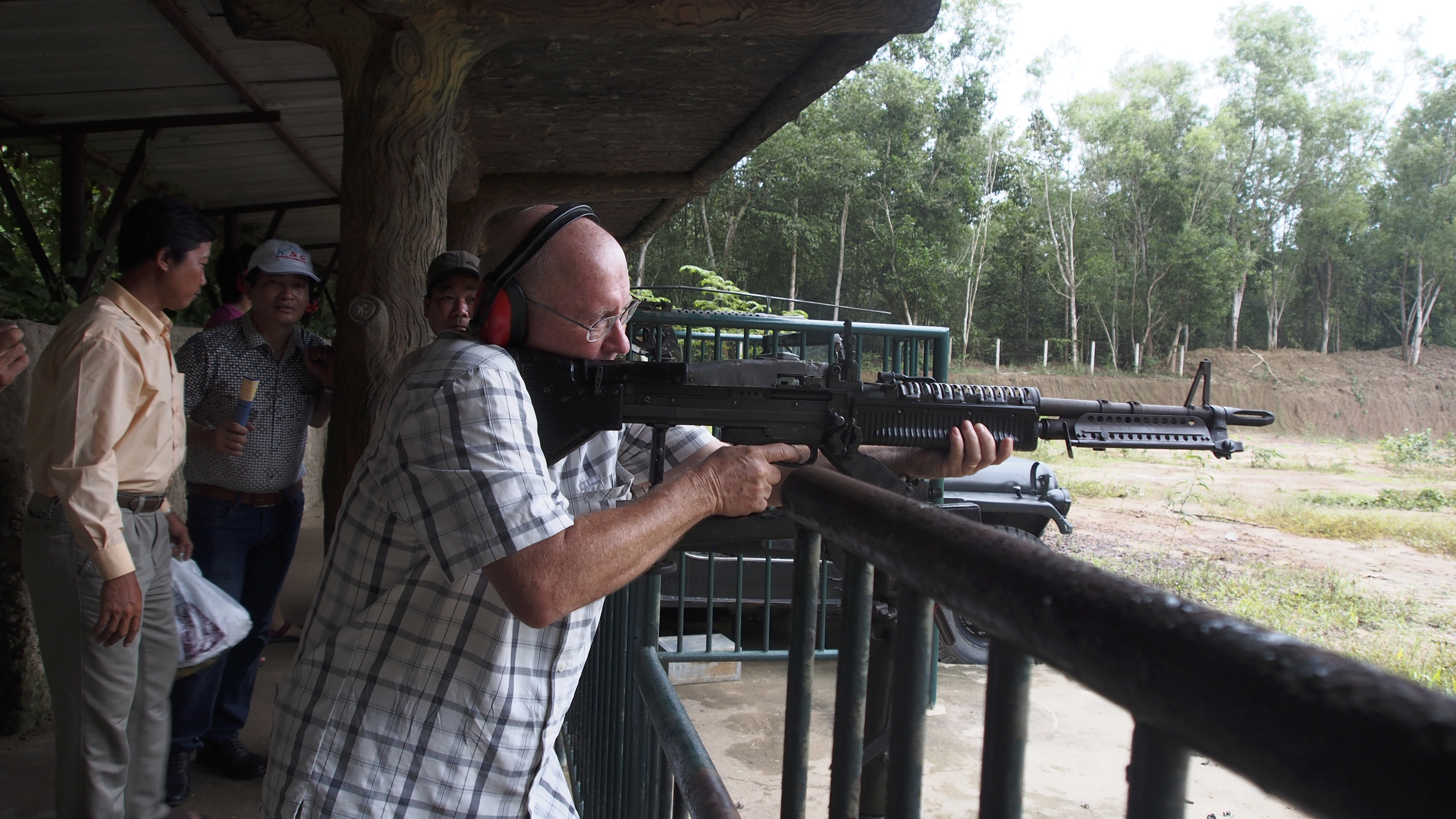 Good fun after a few "33" beers and a look at the Cu Chi Tunnels.